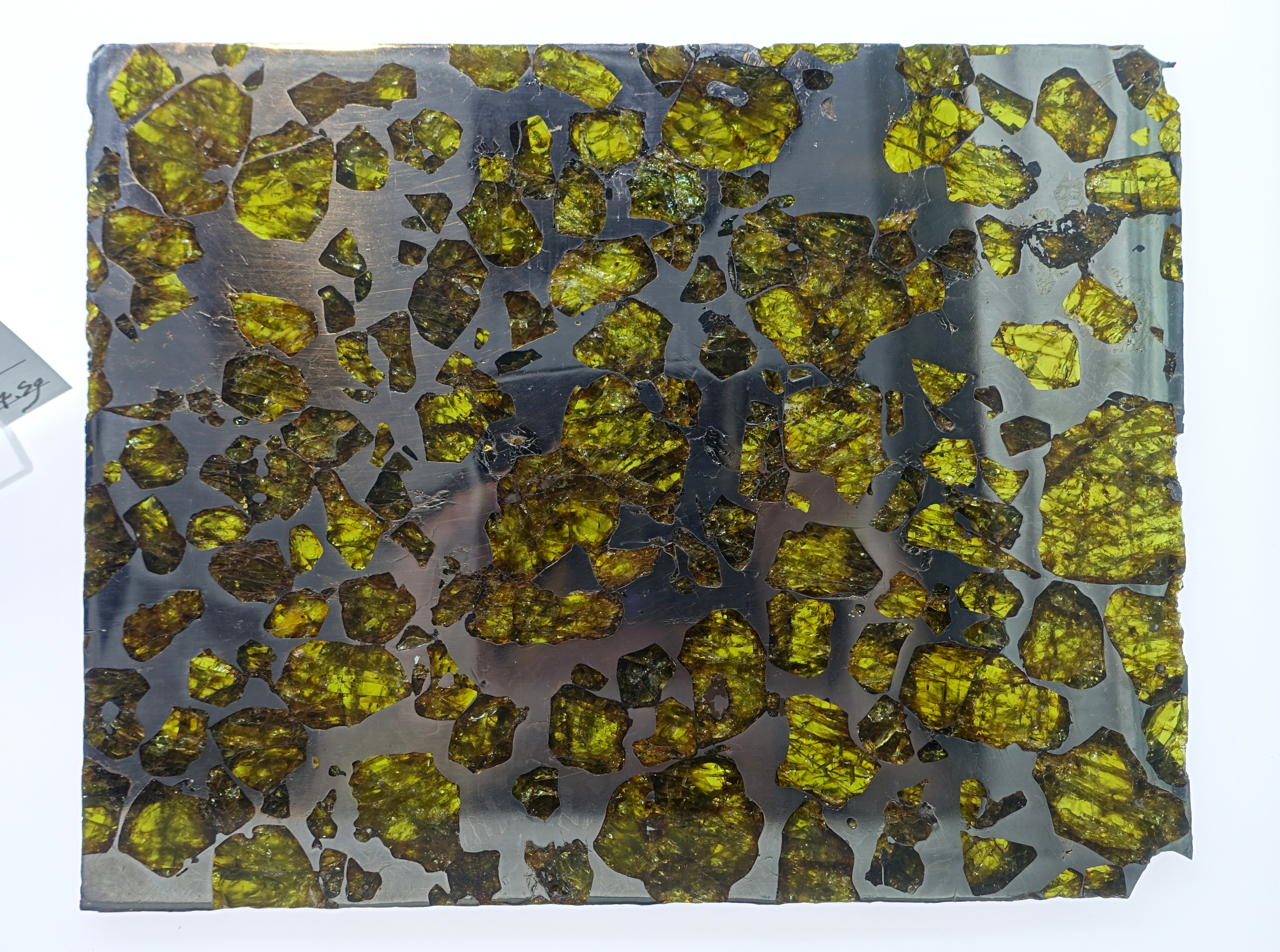 Fukang meteorite slice, pallasite. Exhibit at the Center for Meteorite Studies, Arizona State University, Tempe, Arizona, USA.